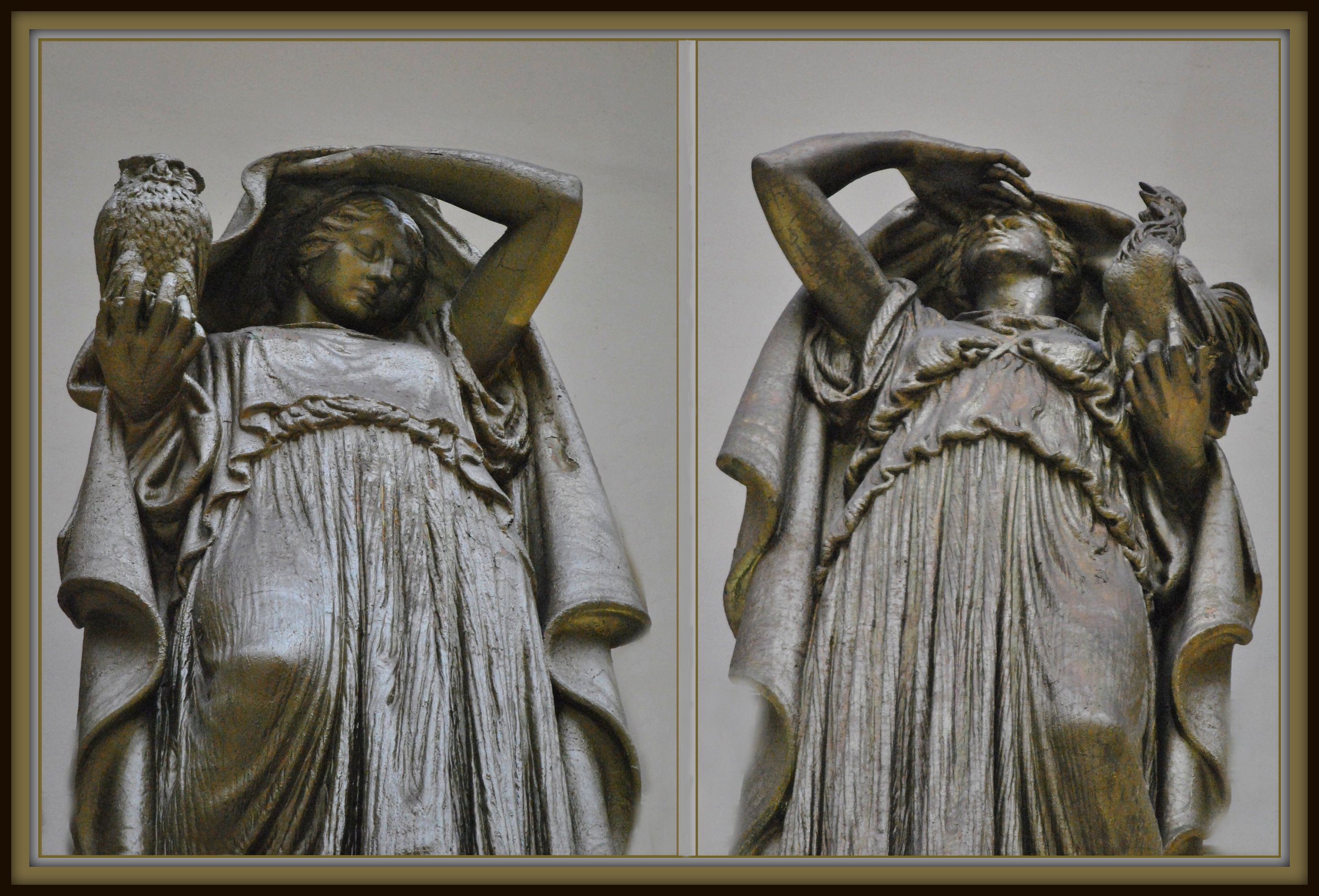 Night and Day Statues at Union Station. During a visit to Chicago Union Station in December I took these two photo's showing two figural statues towering over the Great Hall - on its east wall, one representing DAY (holding a rooster) and the other representing NIGHT (holding an owl), a recognition of the 24-hour nature of passenger railroading.